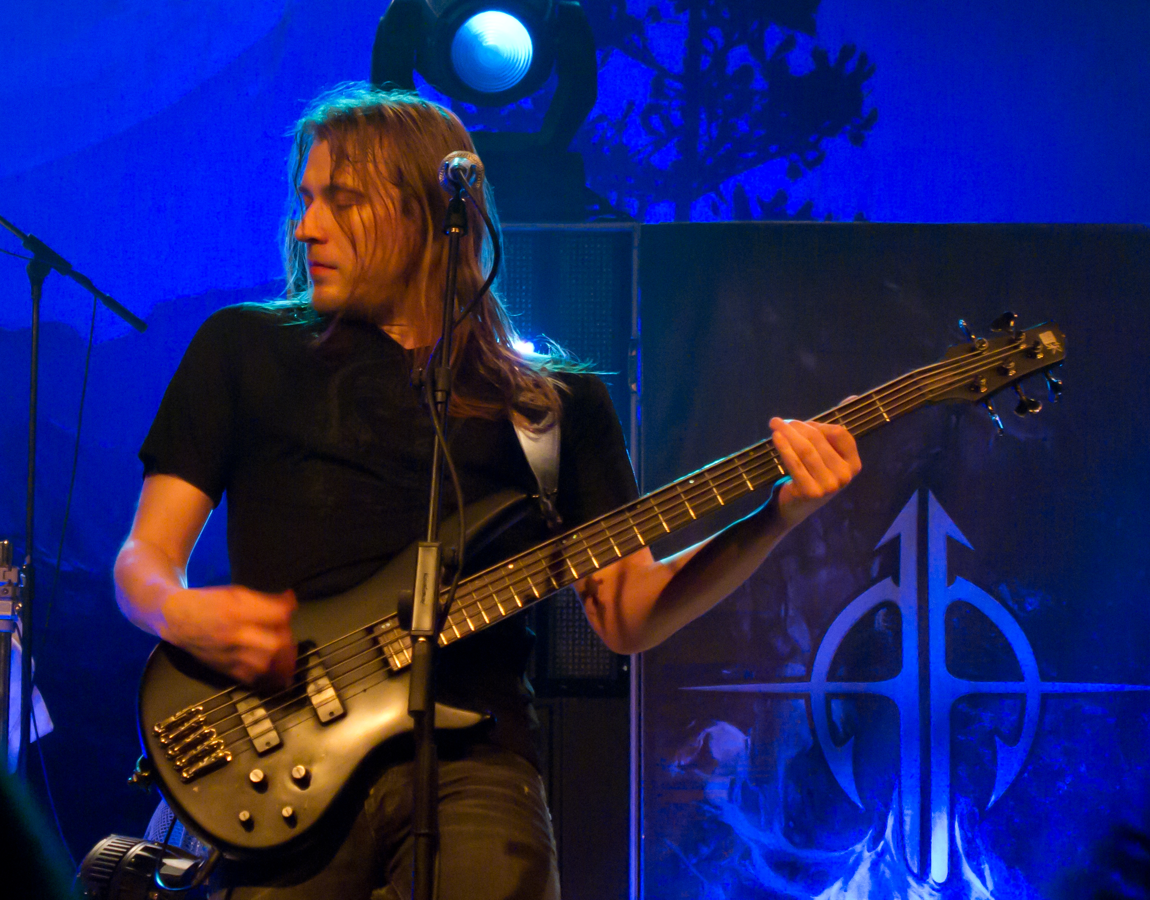 Marko Paasikoski (Sonata Arctica) in concert.